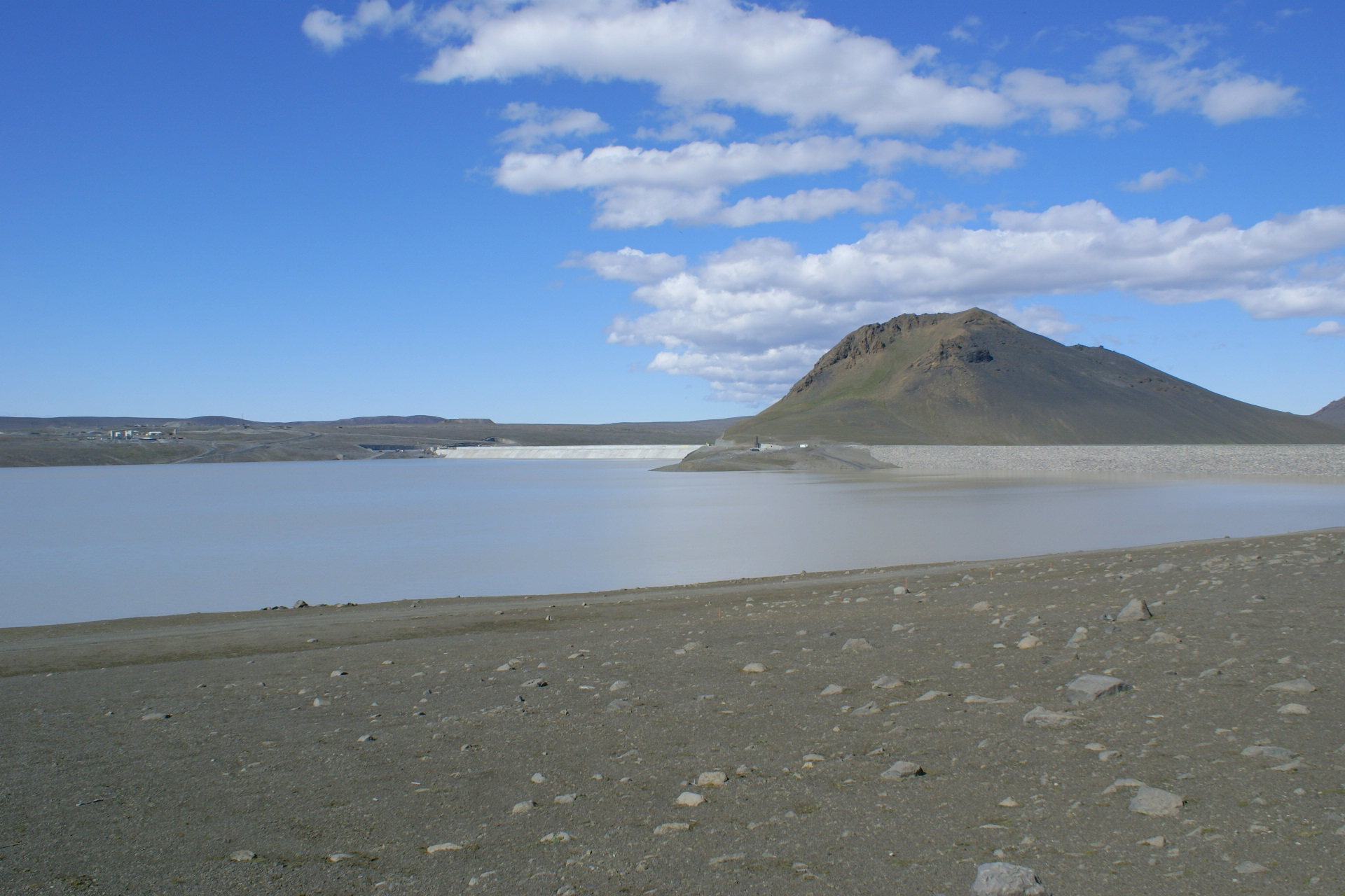 Kárahnjúkar Hydroelectric Project. Installed capacity 690 MW The Kárahnjúkar dam has a maximum height of 193 m is of 730m length and was constructed using 8.5 million m3 of fill materials. The Desjará dam is 60 m in height and of 1100m length. Sauðárdals dam. Maximum dam height 25 m. Dam length 1100 m accessed 8. May 2009. Looking south wide view.